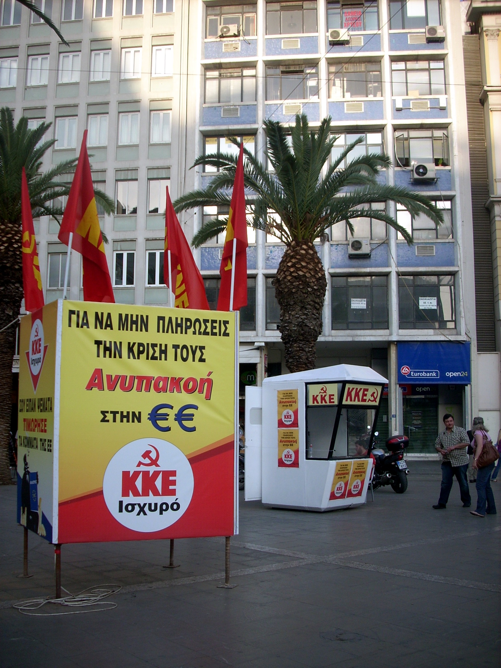 Kiosk of political party – ΚΚΕ, Communist Party of Greece. Omonia Square in Athens before the European Parliament election in Greece 2009